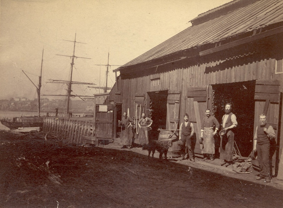 Blacksmith Shop Behind Custom House, Saint John, New Brunswick, Canada. Albumen print mounted on card.